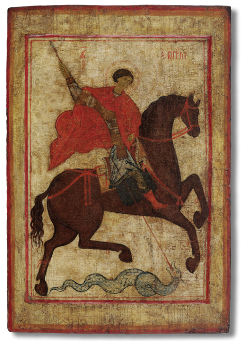 Icon of the Miracle of St. George and the Dragon. (Rostov, late 14 century). From the Museum of the Russian icon in Moscow.